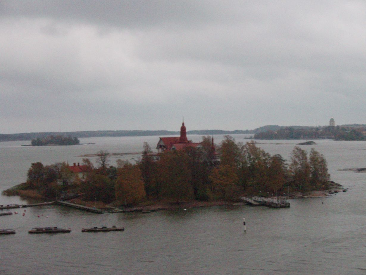 The island of Klippan in Helsinki harbour, housing a summer restaurant